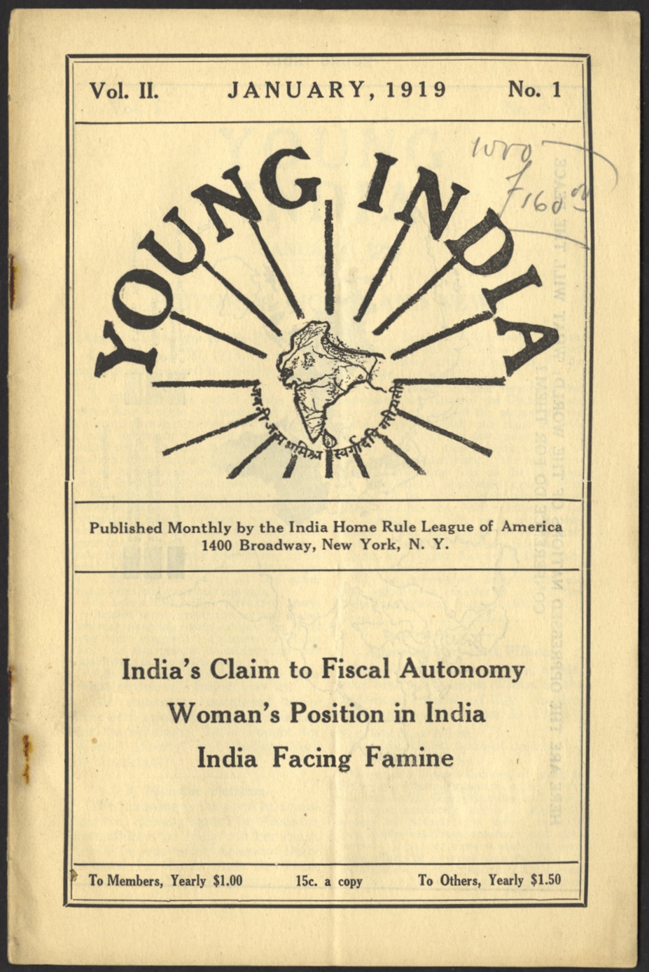 Young India (January 1919)